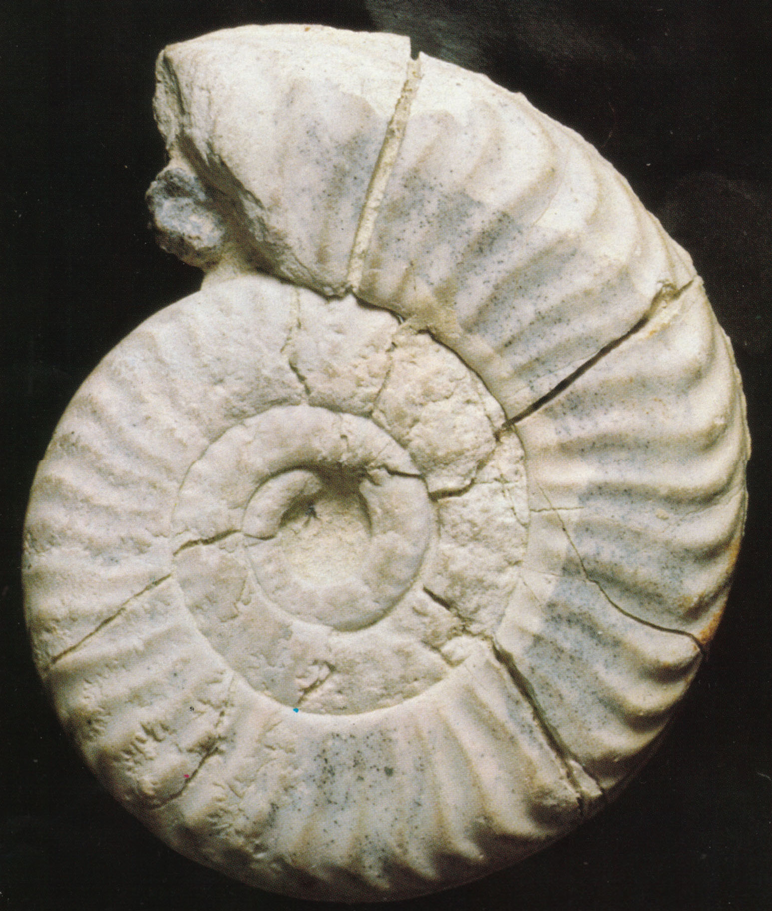 Catriceras catriense